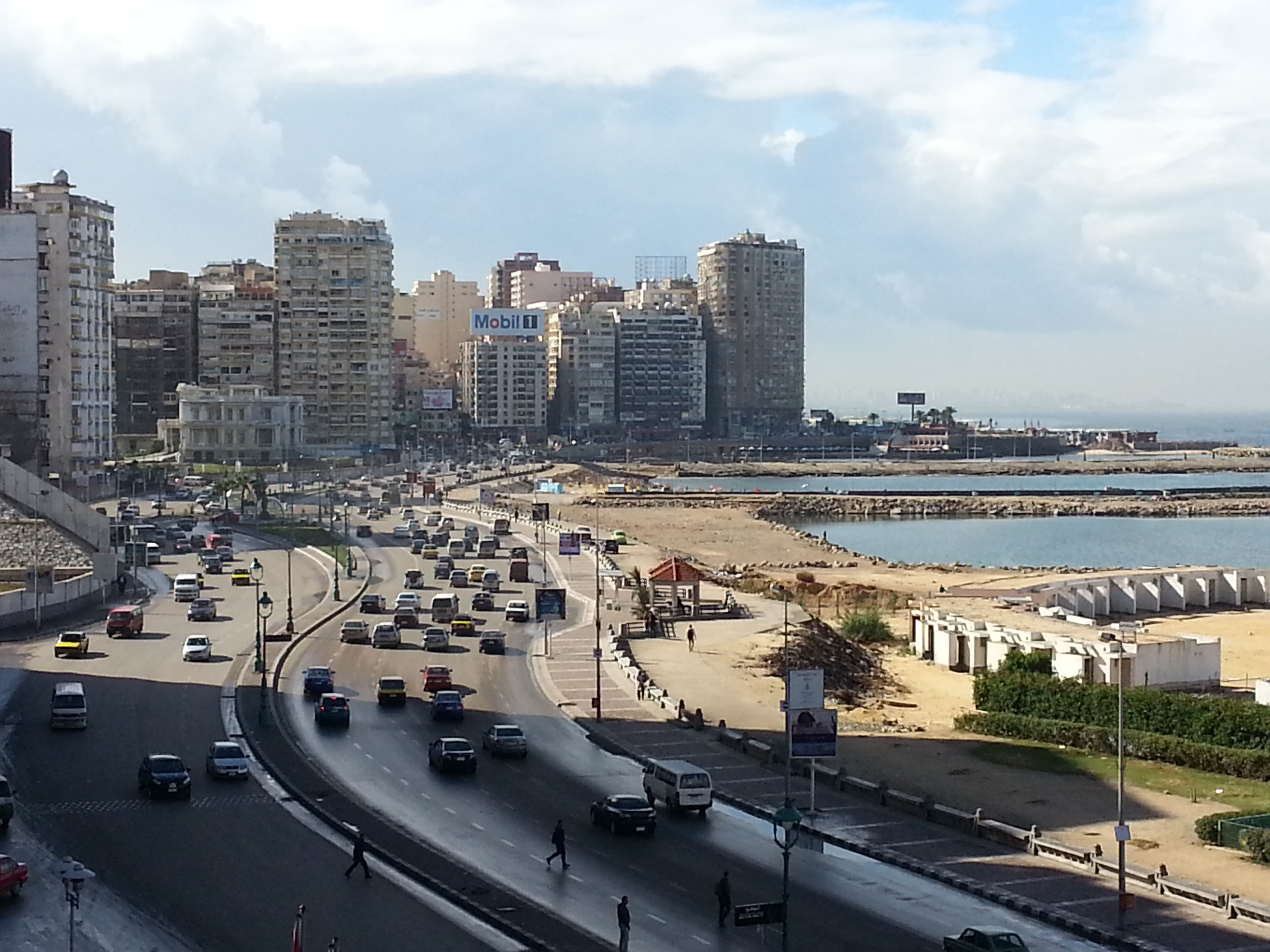 A view of the corniche from the San Stefano mall.